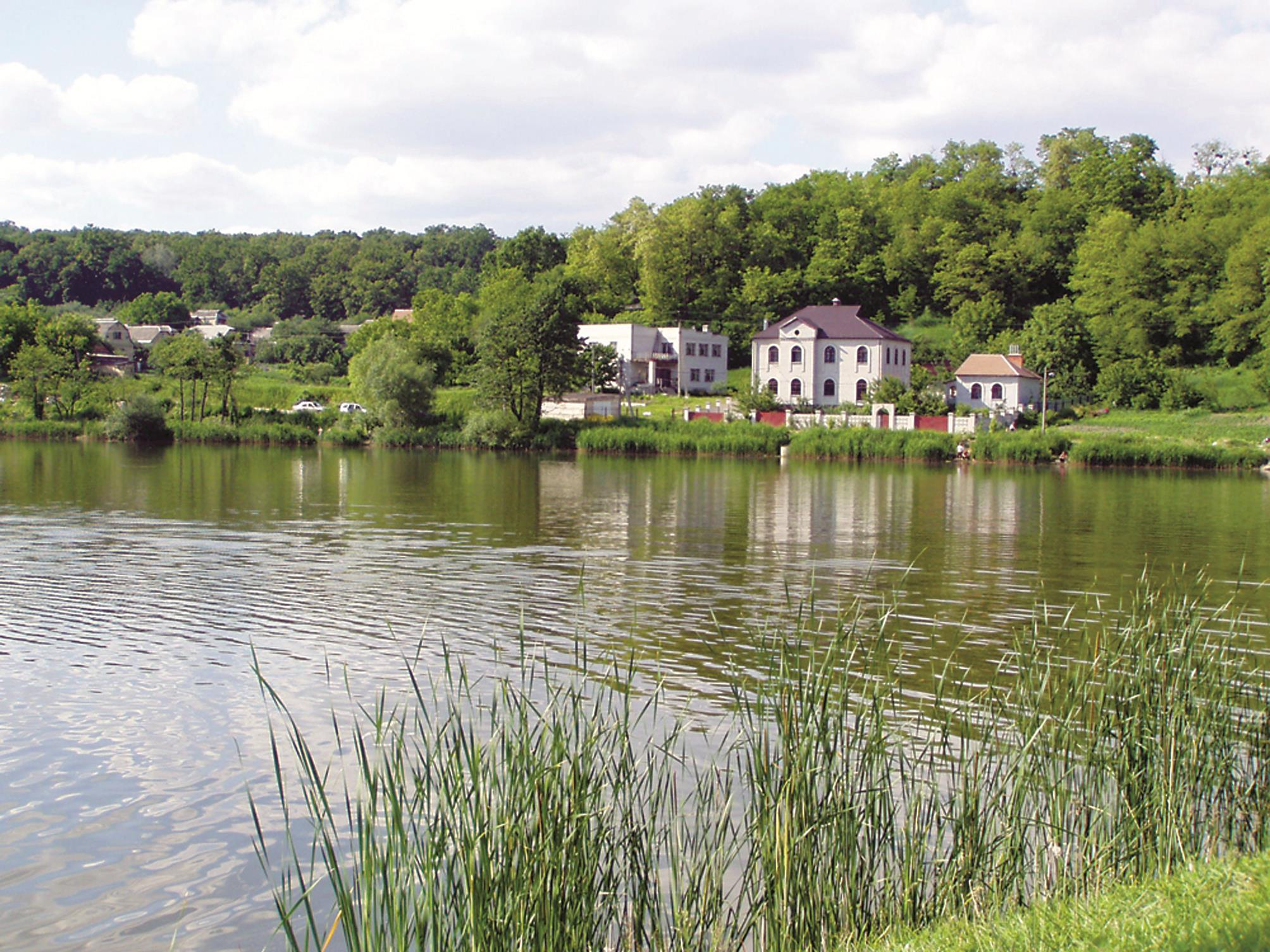 R._Vita,_Khotiv